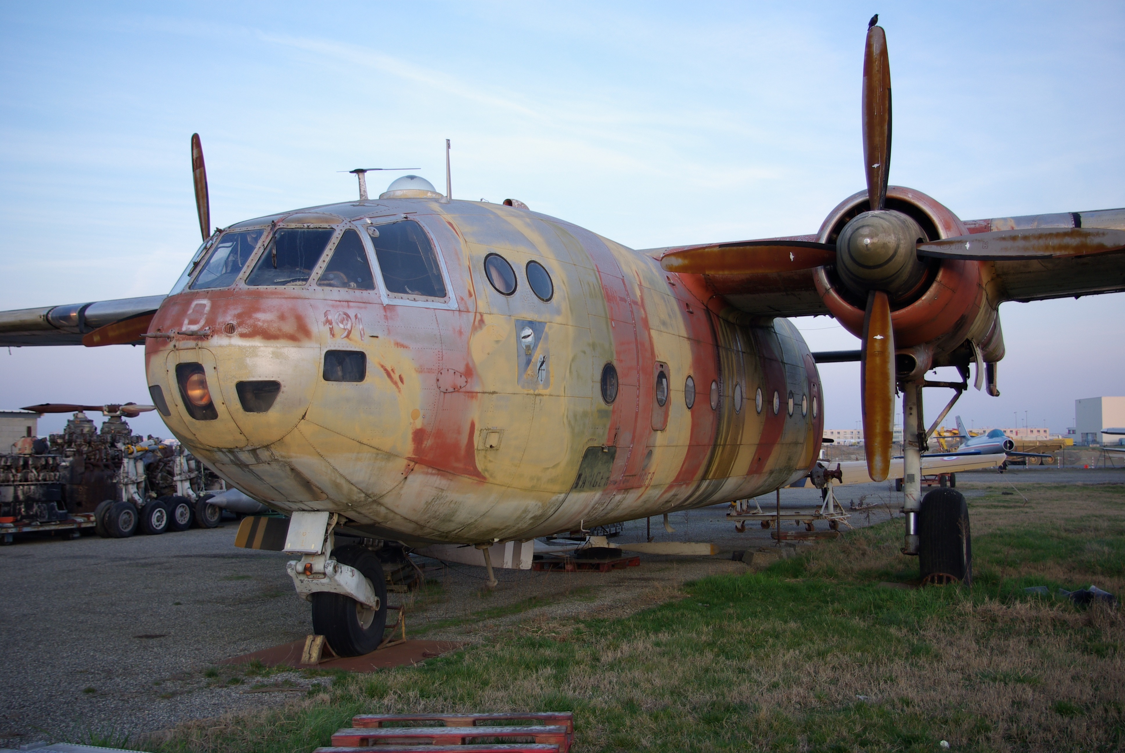 One Noratlas of the Musée des ailes anciennes of Toulouse awaiting restoration.